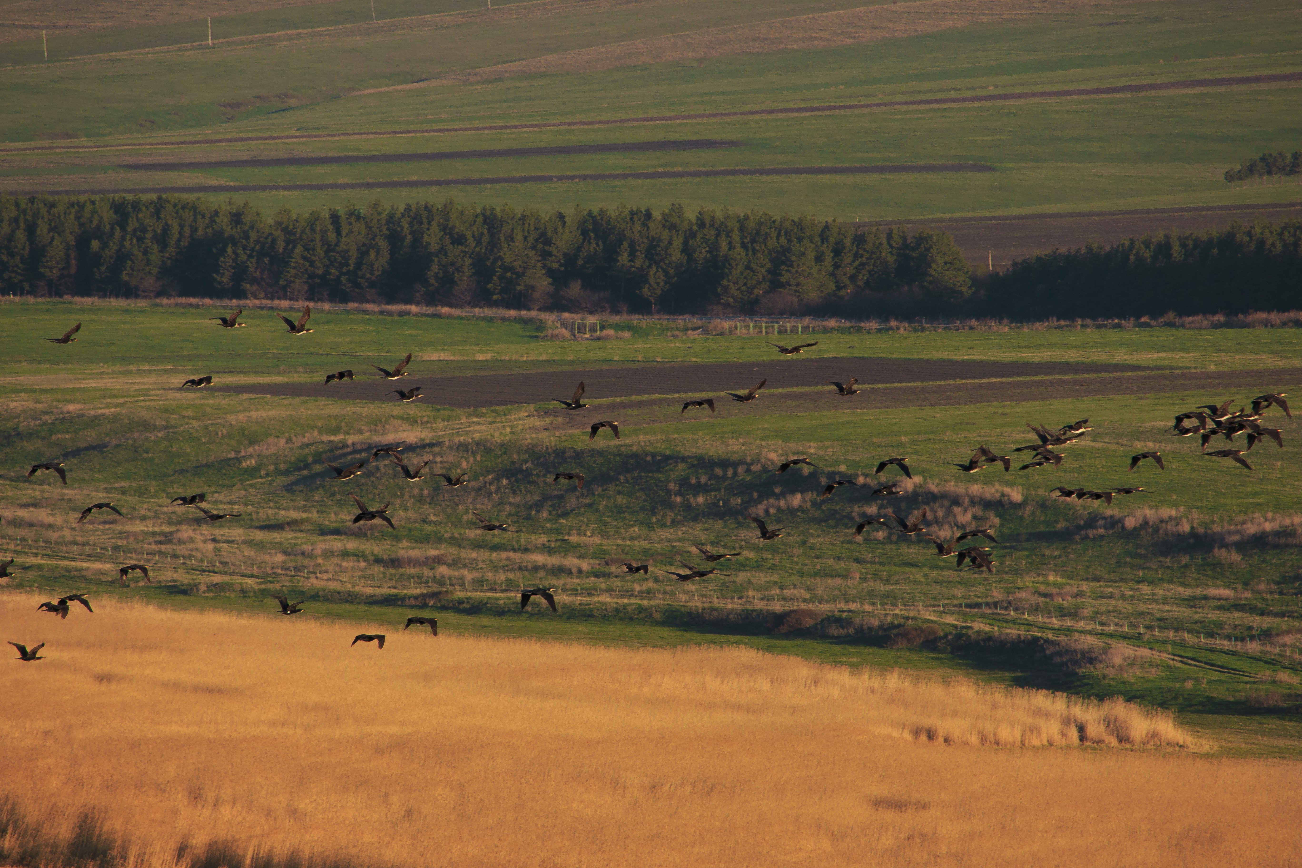 კარწახის ტბა და მისი ბინადრები